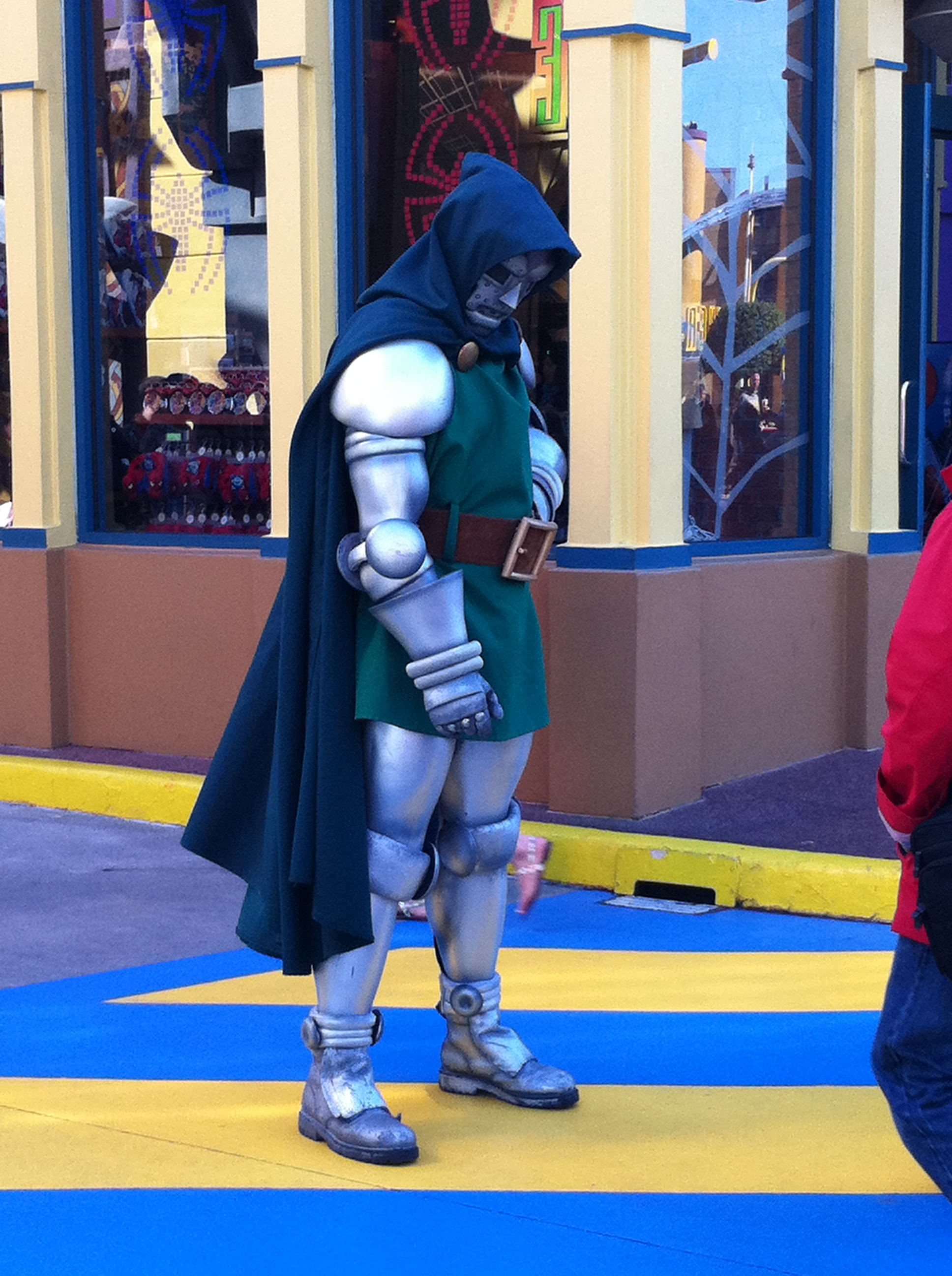 Cosplay of Dr Doom